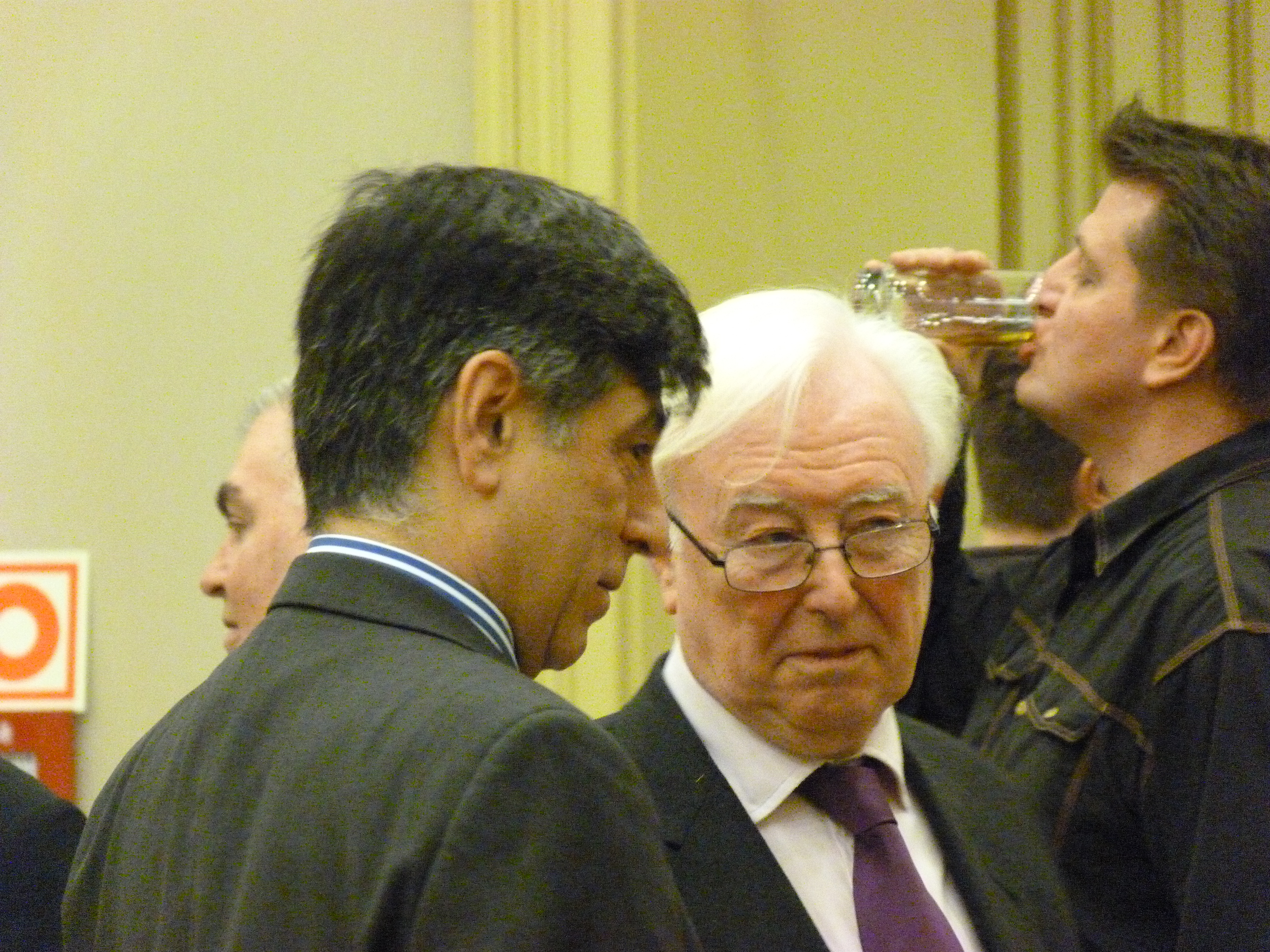 Live on the 13th of January, 2015. Budapest, Vigadó. Makovecz Room. High Noon, film screening. Danube Institute. Mark André Goodfriend, John O'Sullivan, Michael Walsh. High Noon (film, starring Gary Cooper) won four Academy awards, was written by a Communist, Carl Foreman, who was later blacklisted by the Hollywood studios, due to his being called during the movie's production before the House Un-American Activities Committee, which was investigating Communist influence in Hollywood; in fact, HIGH NOON was his last screen credit for several years. Many have seen the script as Foreman's reaction to the political circumstances of the time. And yet today, it plays as the epitome of rugged individualism against any kind of collectivism. Following the showing of the film Michael Walsh, American film and music critic, screenwriter and novelist will examined the film and the reasons why it remains a still-controversial classic. Howard Hawks made Rio Bravo (starring John Wayne) a kind of answer to High Noon, because he didn't believe that a good sheriff would go running around town asking for other people's help to do his job.